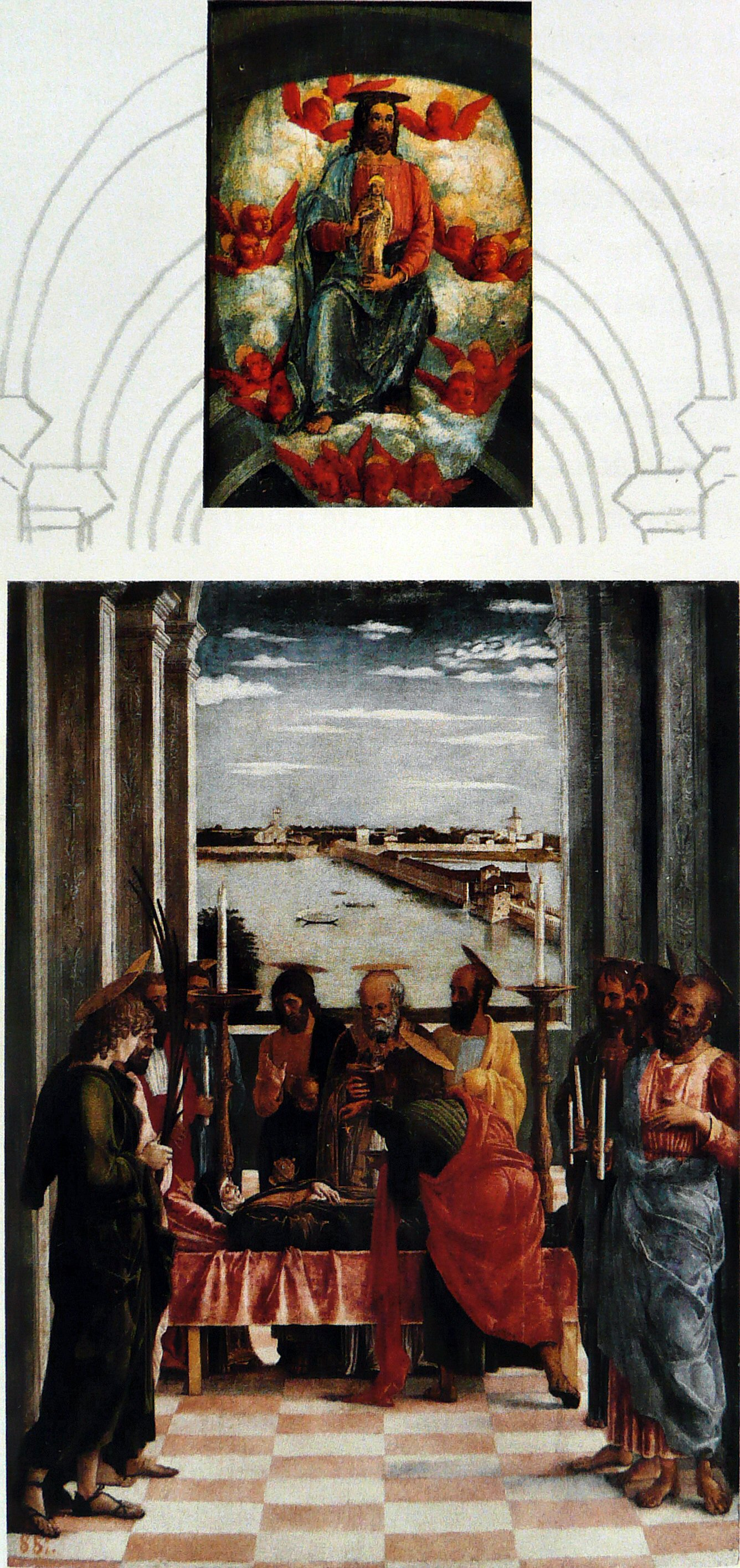 Reconstruction of the painting Death of the Virgin